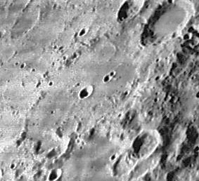 Image LO IV-165-h1